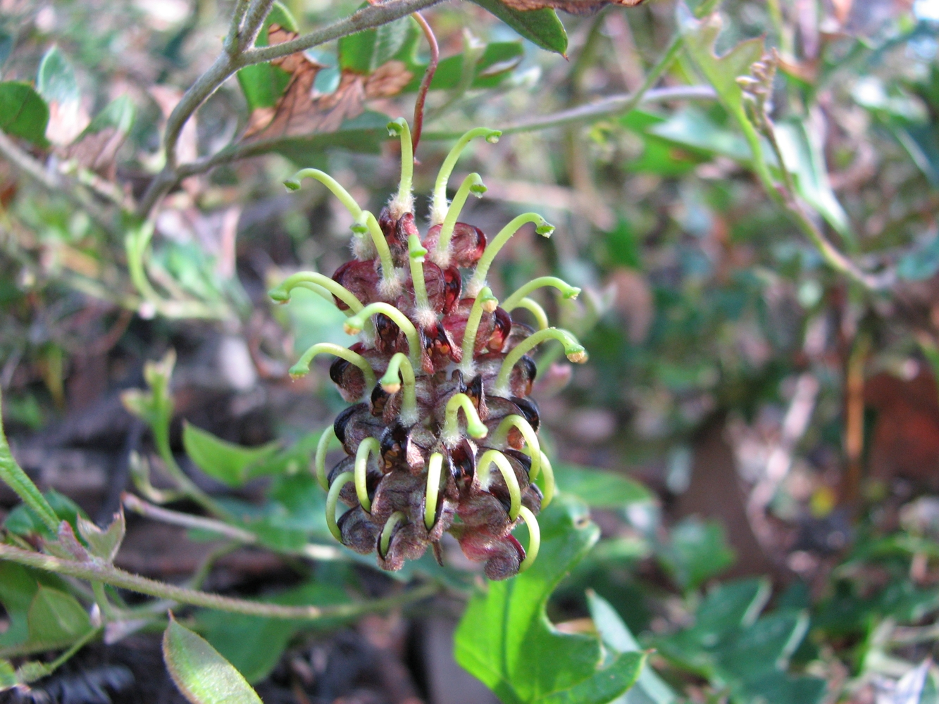 Grevillea floripendula, Ben Major Conservation Park, Victoria, Australia